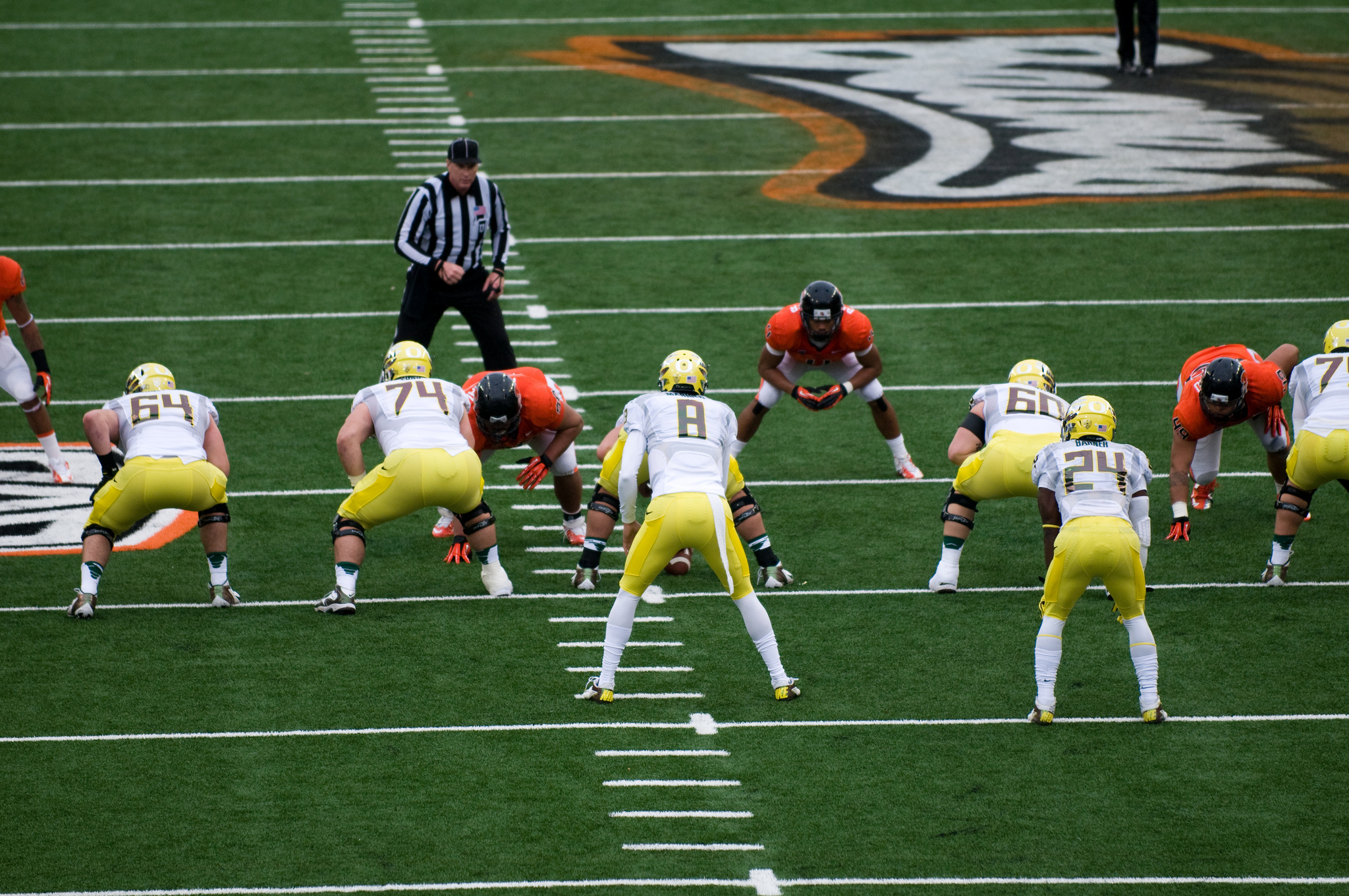 The Oregon State defense lines up against the Oregon offense in the 2012 edition of the Civil War rivalry between the two teams. Oregon would win, 48-24.